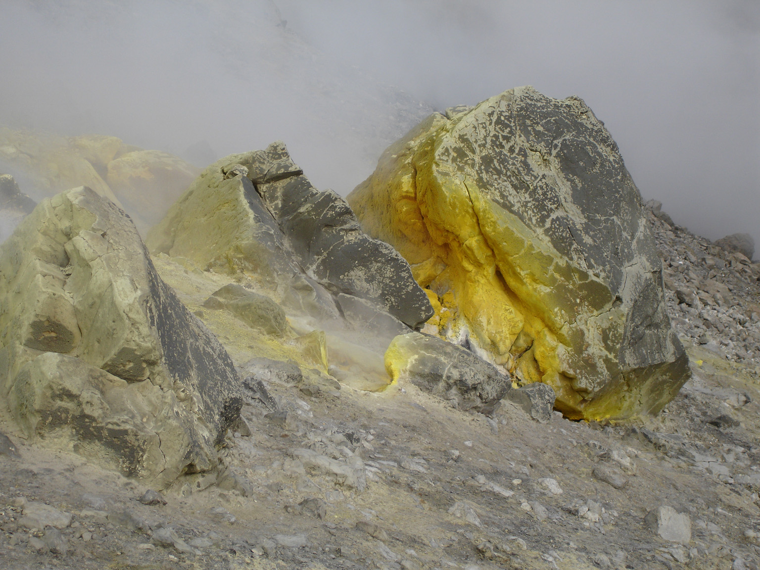 Vulcano, Sicily, Stones